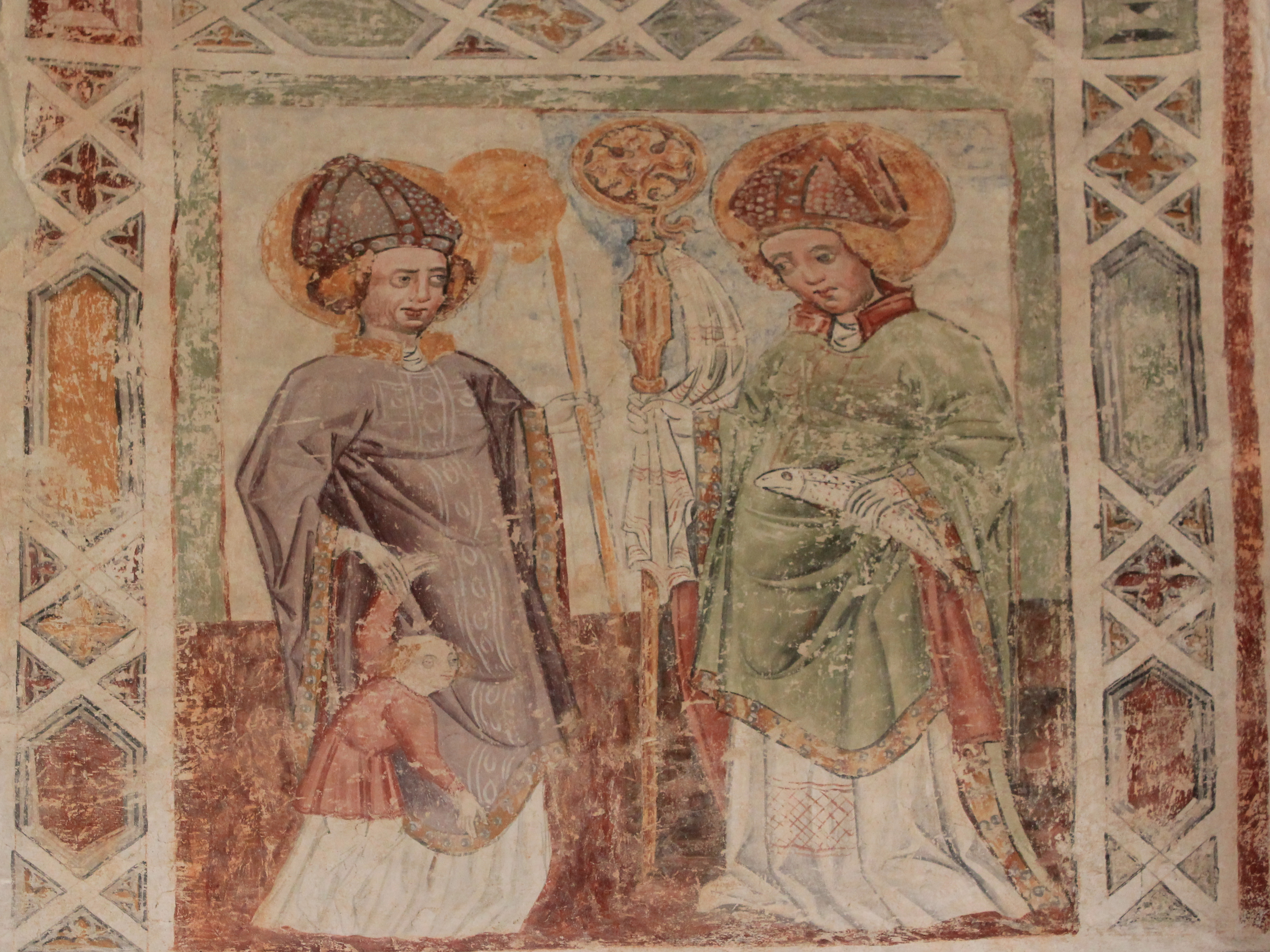 Church of Wakendorf in the community of Globasnitz- fresco